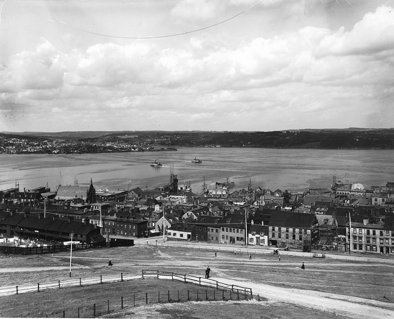 Halifax from the Citadel, Nova Scotia, Canada, 1901